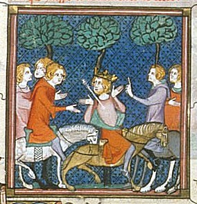 Death of William Rufus